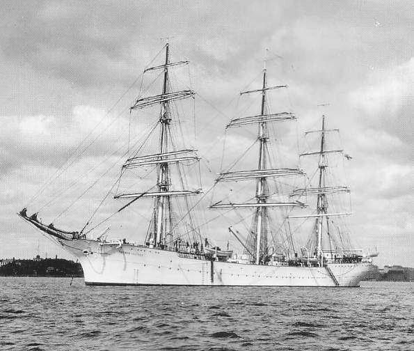 Suomen Joutsen anchored of Kruunuvuori in 1932.